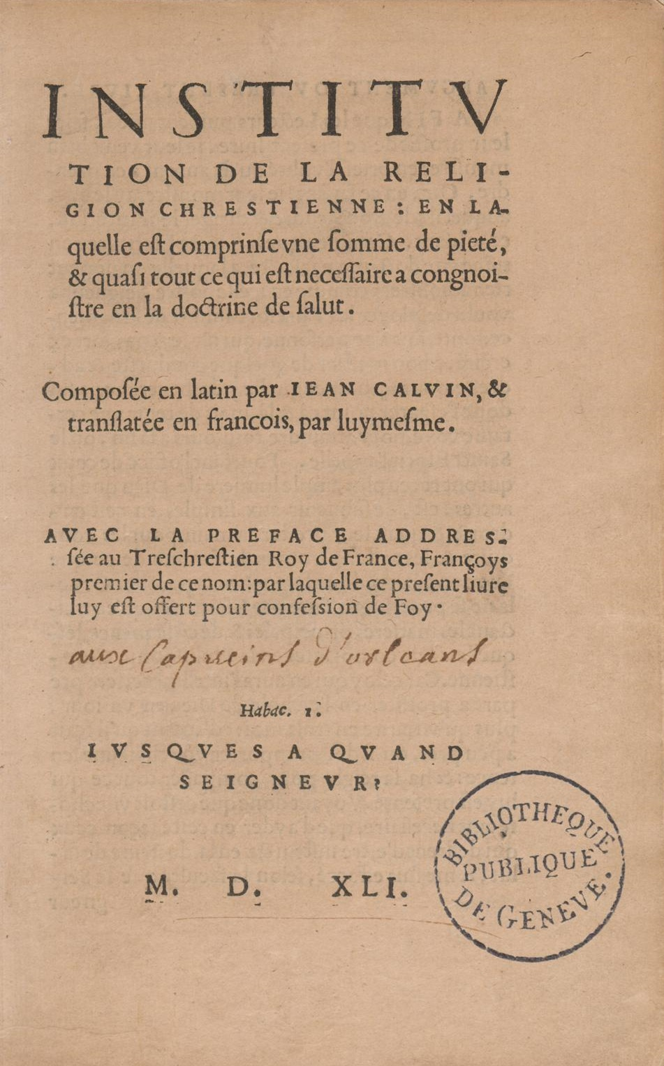 Title page of 1541 edition of French Institution de la religion chrestienne (Institutes of the Christian Religion)